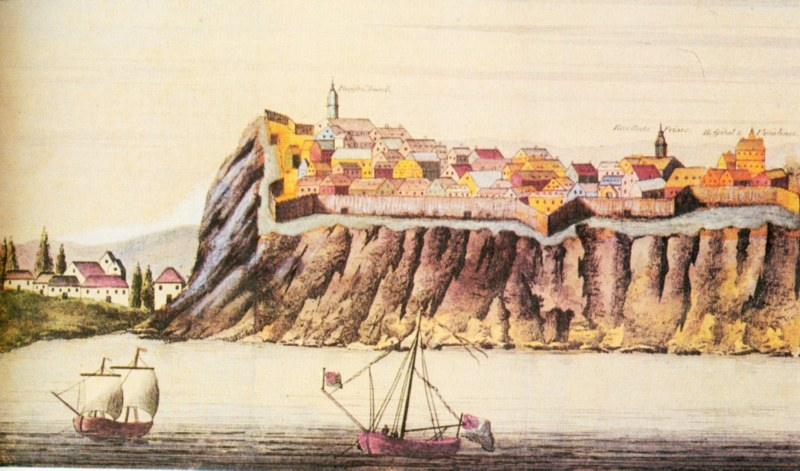 Fort des Trois-Rivières, vers 1750.